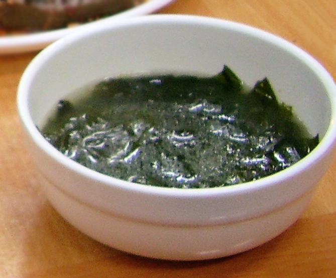 미역국, Miyeok guk, made with wakame and beef broth or mussel broth.